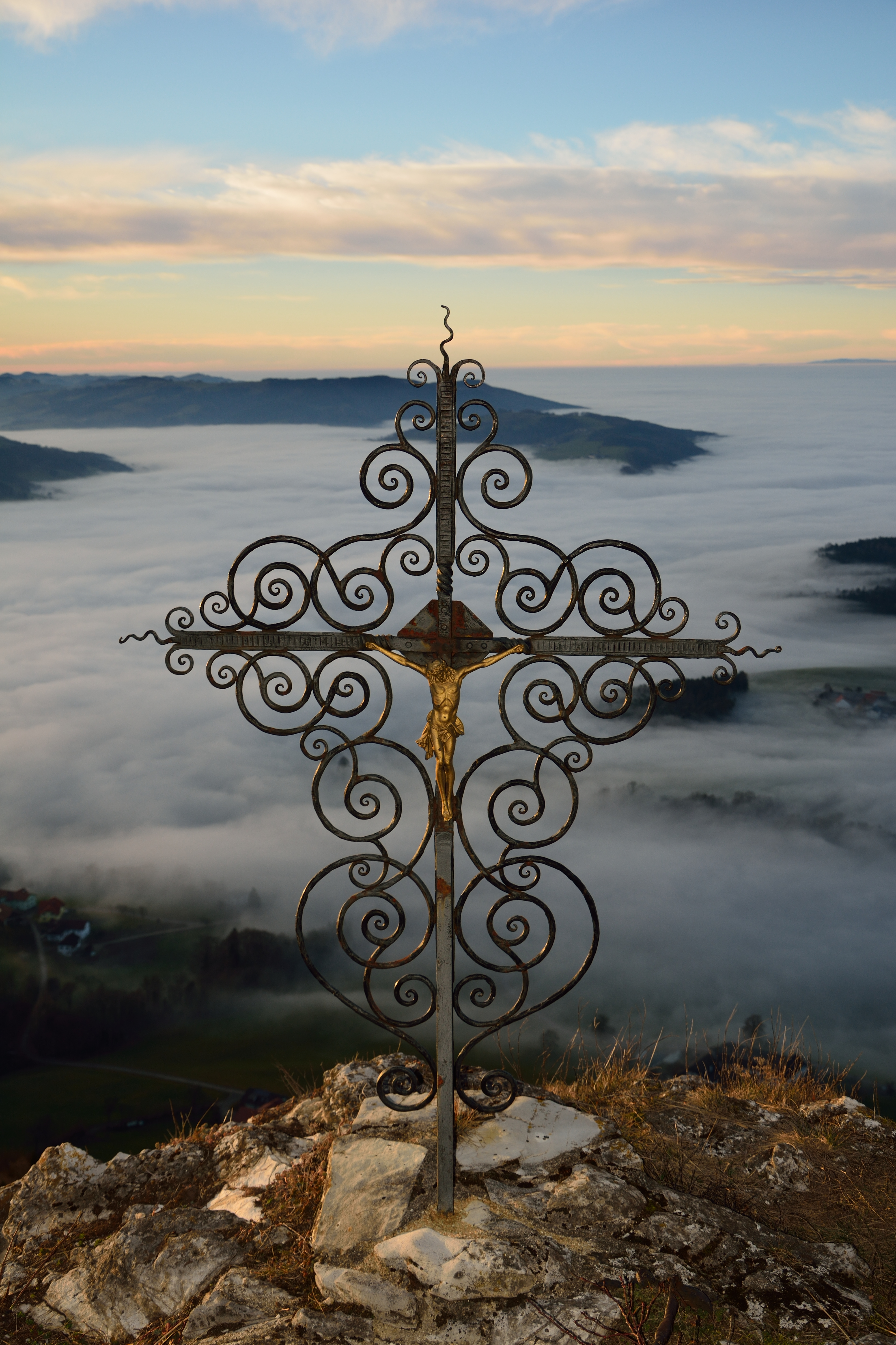 Wrought iron cross on Blassenstein mountain near Scheibbs (Lower Austria), with fog over Erlauf valley and Danube.